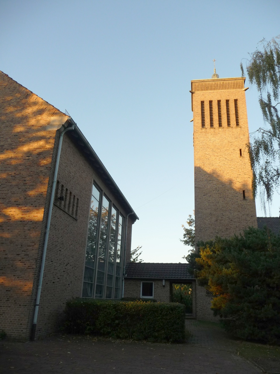 Thomas-Church in Bremen-Kattenesch